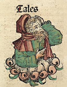 Thales. Woodcut from the Nuremberg Chronicle